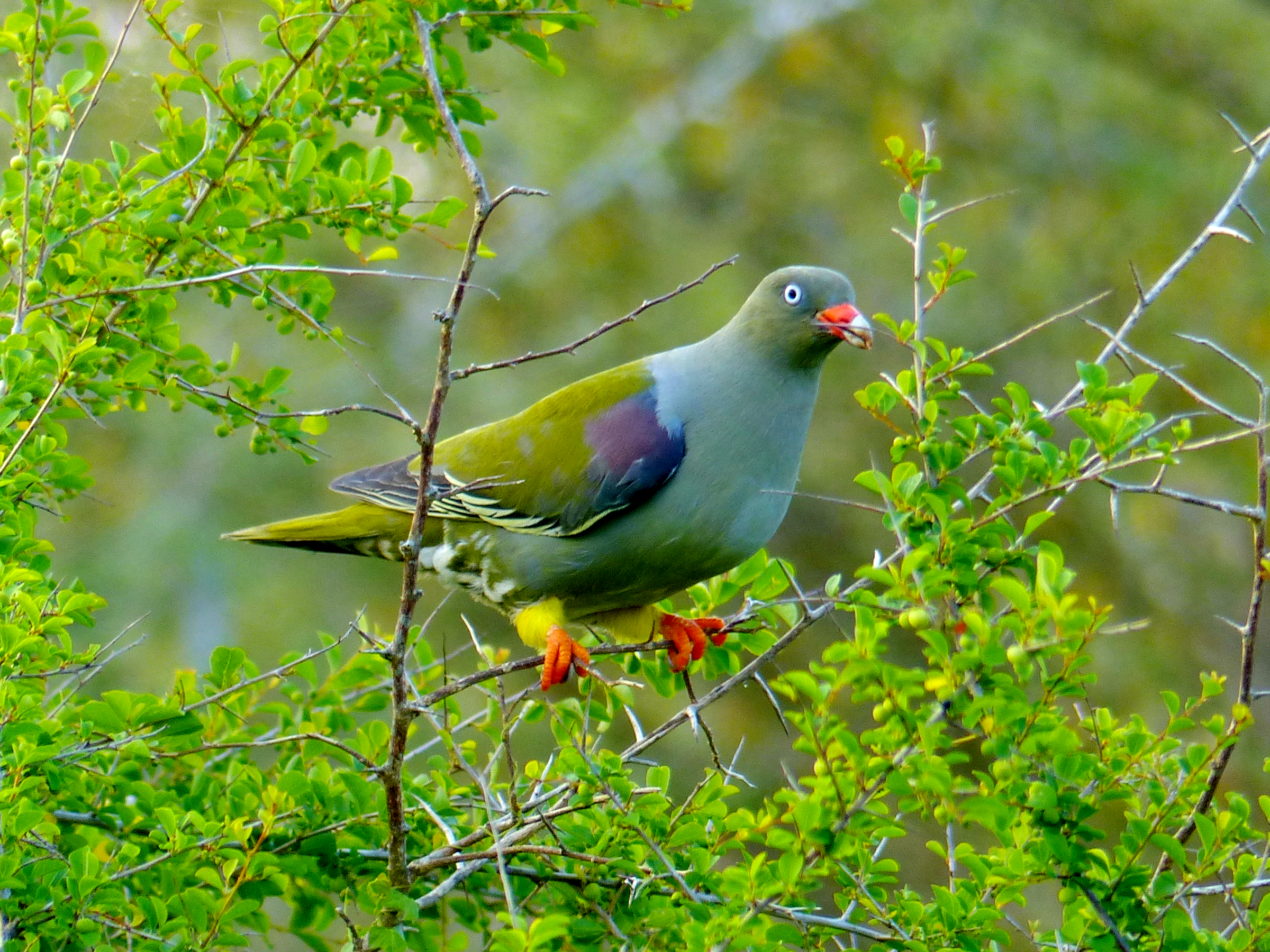 S82 Road, South of Lower Sabie, Kruger NP, SOUTH AFRICA